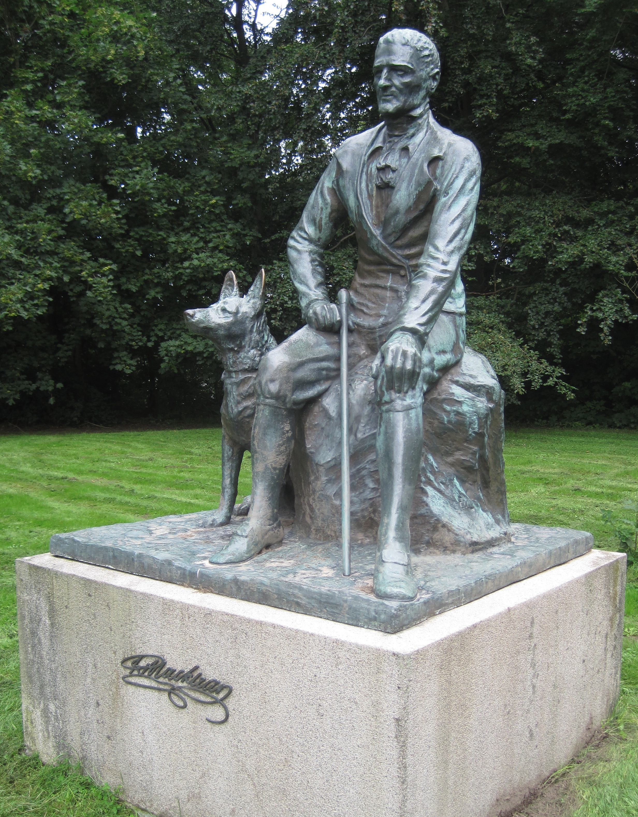 Rutger Macklean (1742-1816), Swedish baron, officer and land reformer.